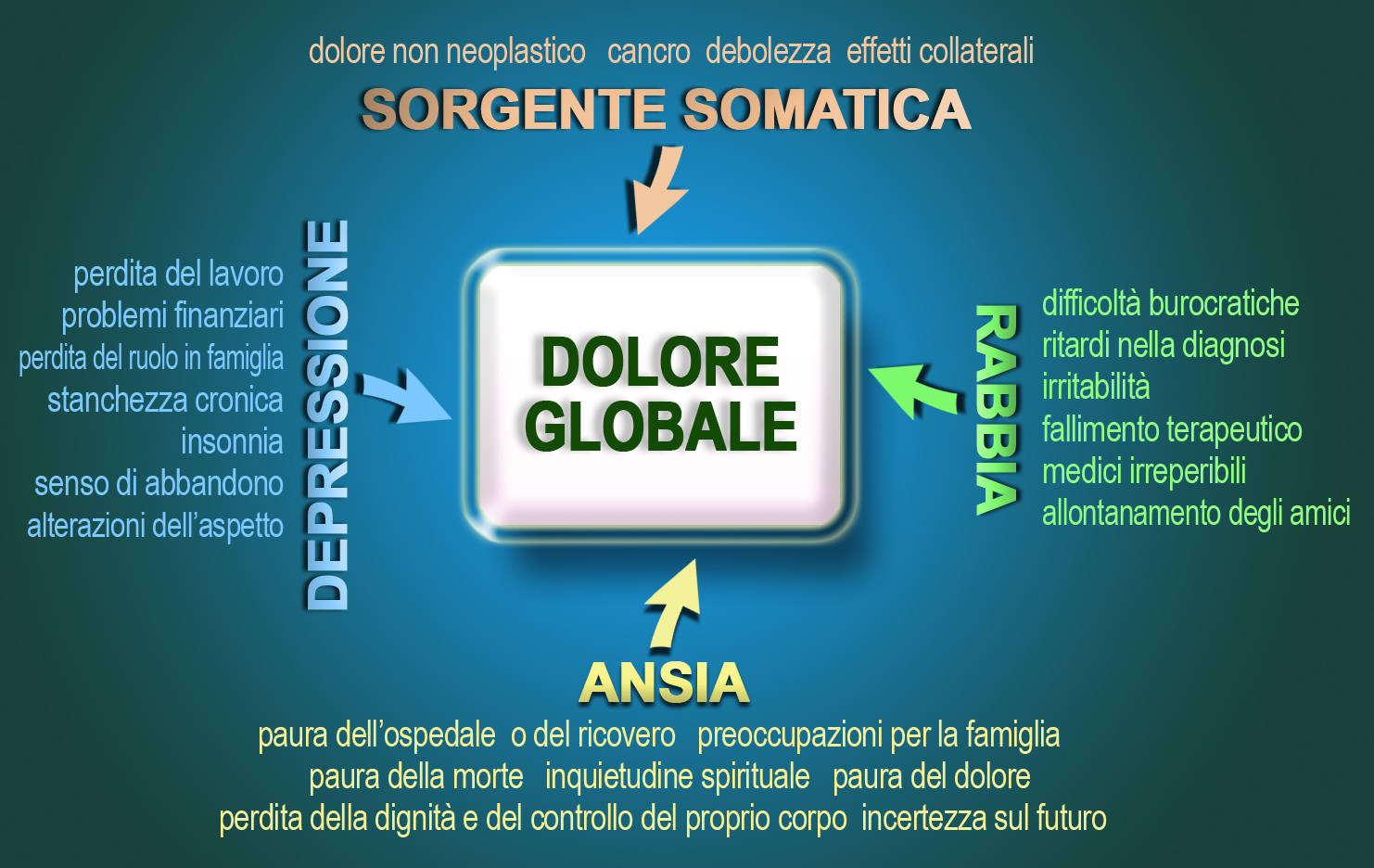 "Global pain" pain patient. Modified from